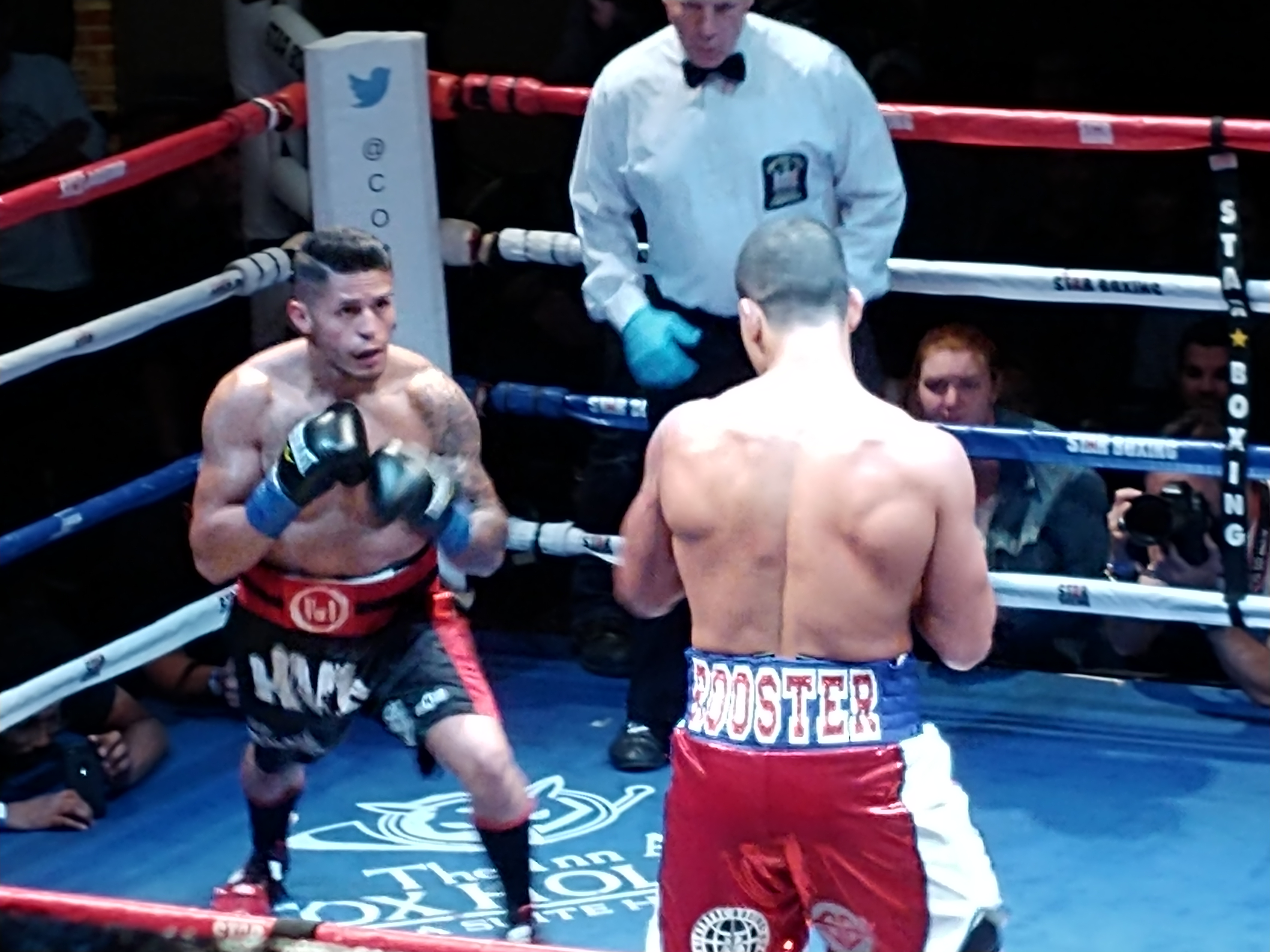 Fight phot